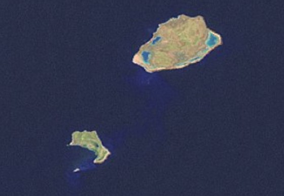 Satellite image of Kuriat Archipelago (Tunisia)